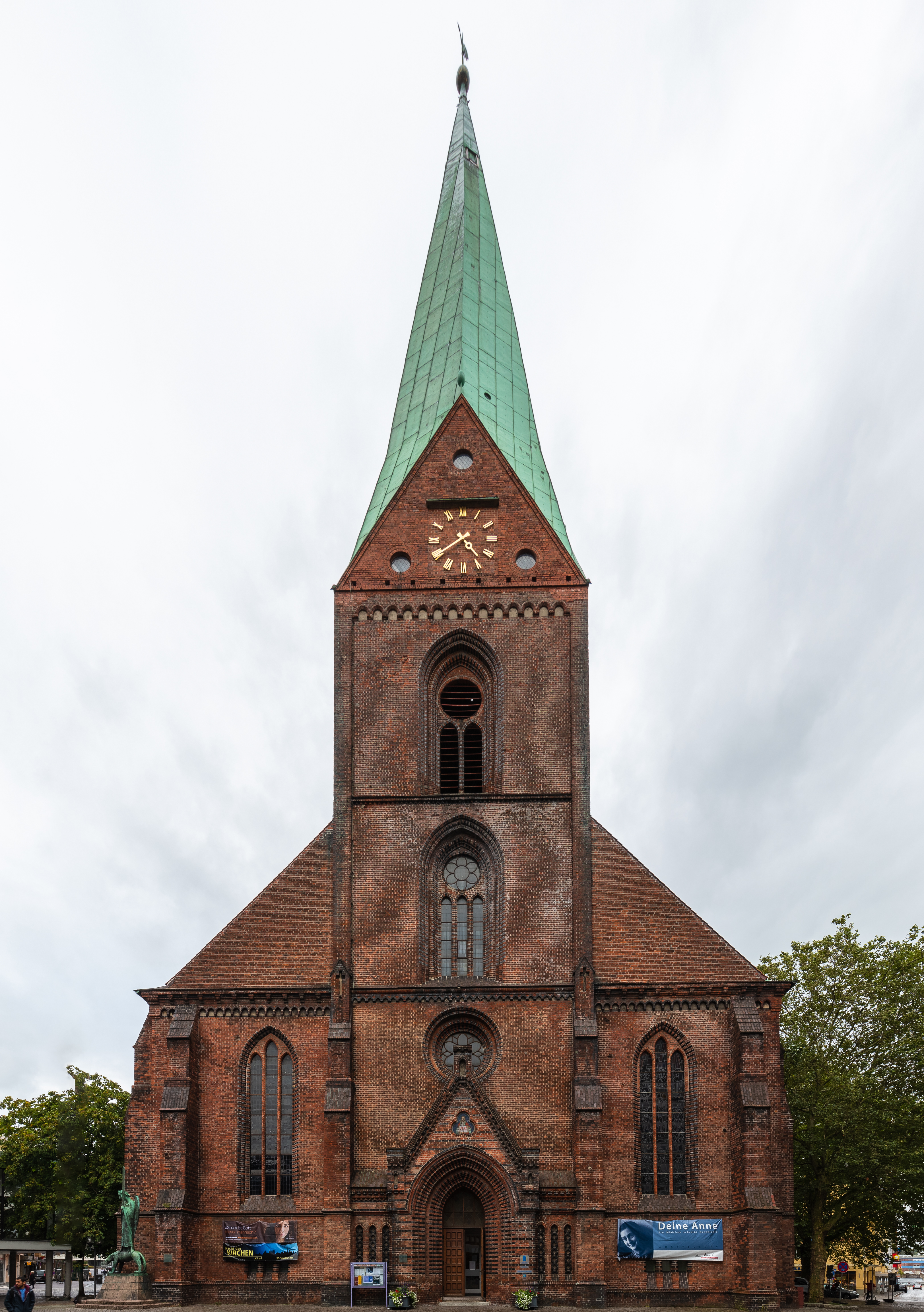 Nicholas church, Kiel, Germany